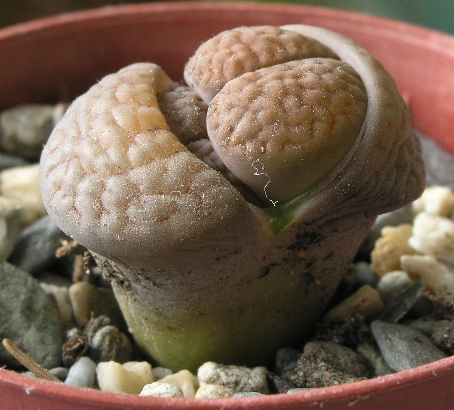 Lithops hookeri (= Lithops turbiniformis) changing leaf pair and splitting (plant collection of Ivan I. Boldyrev, Berdsk, Russia)